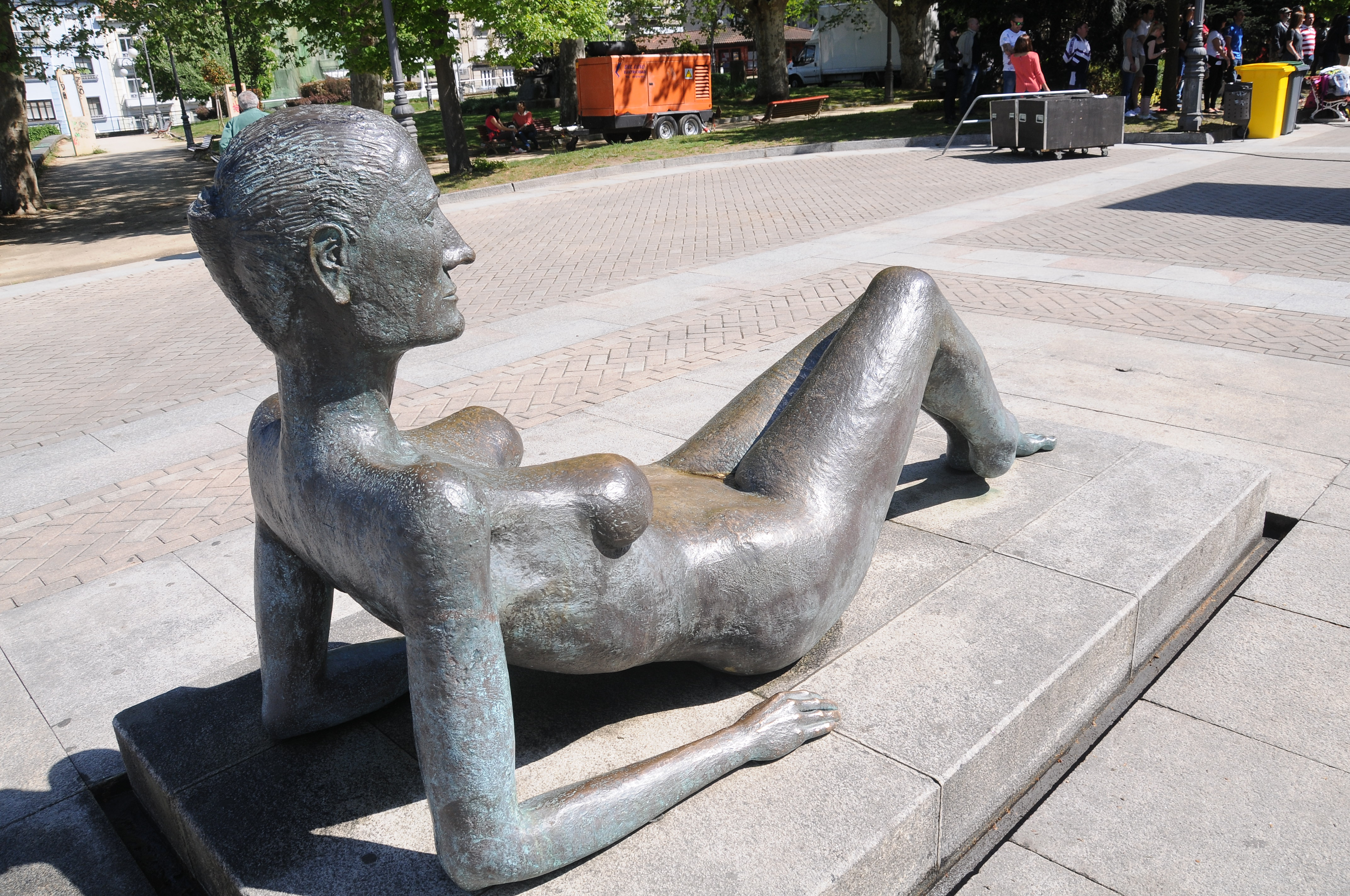 Statue of a woman in Ourense, Spain.